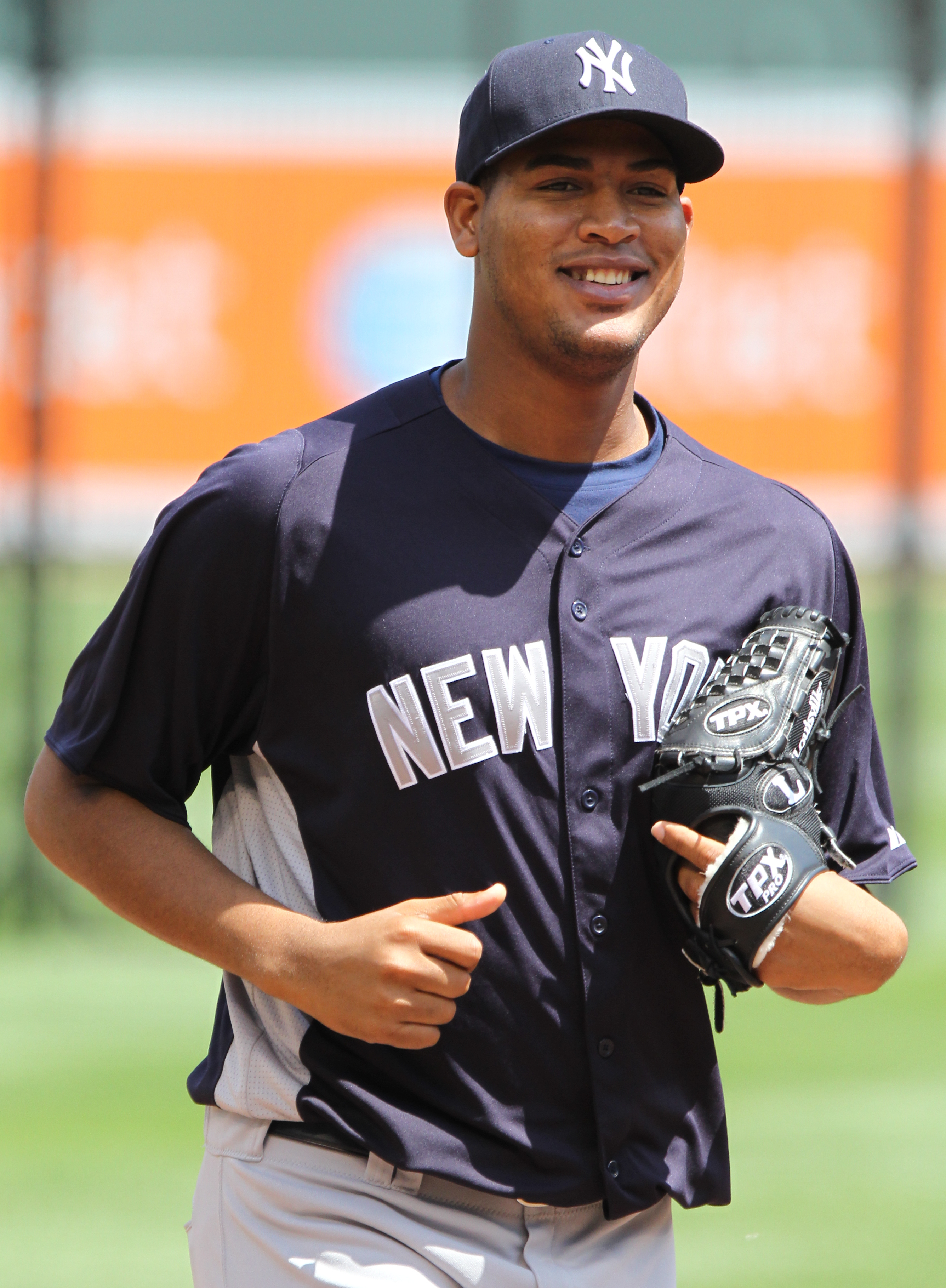 Iván Nova prior to the New York Yankees game against the Baltimore Orioles on April 24, 2011